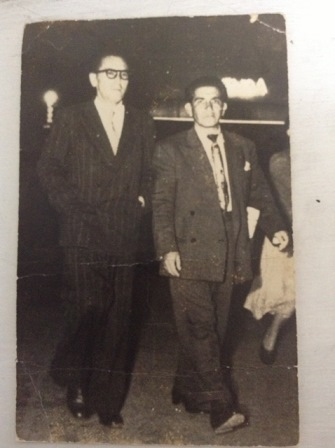 Mexican communist Evelio Vadillo with Anselmo Sánchez Aguilar, leader of notion store workers union of Mexico